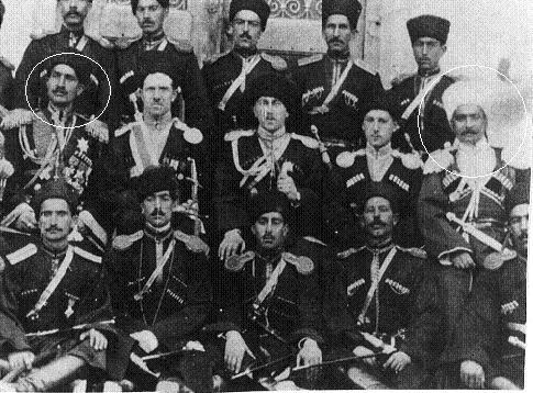 Colonel Hosseinpour with Reza Shah the Great